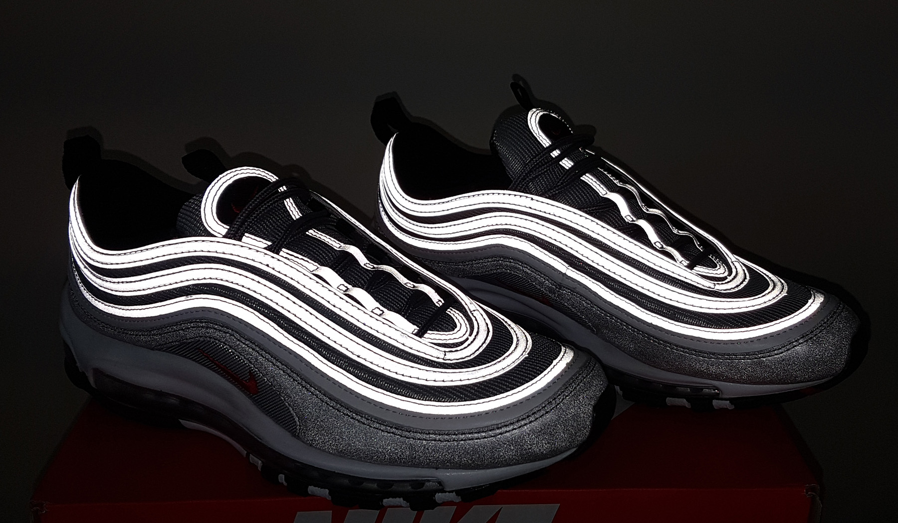 Nike Air Max 97 flash photo highlighting the reflective 3M material